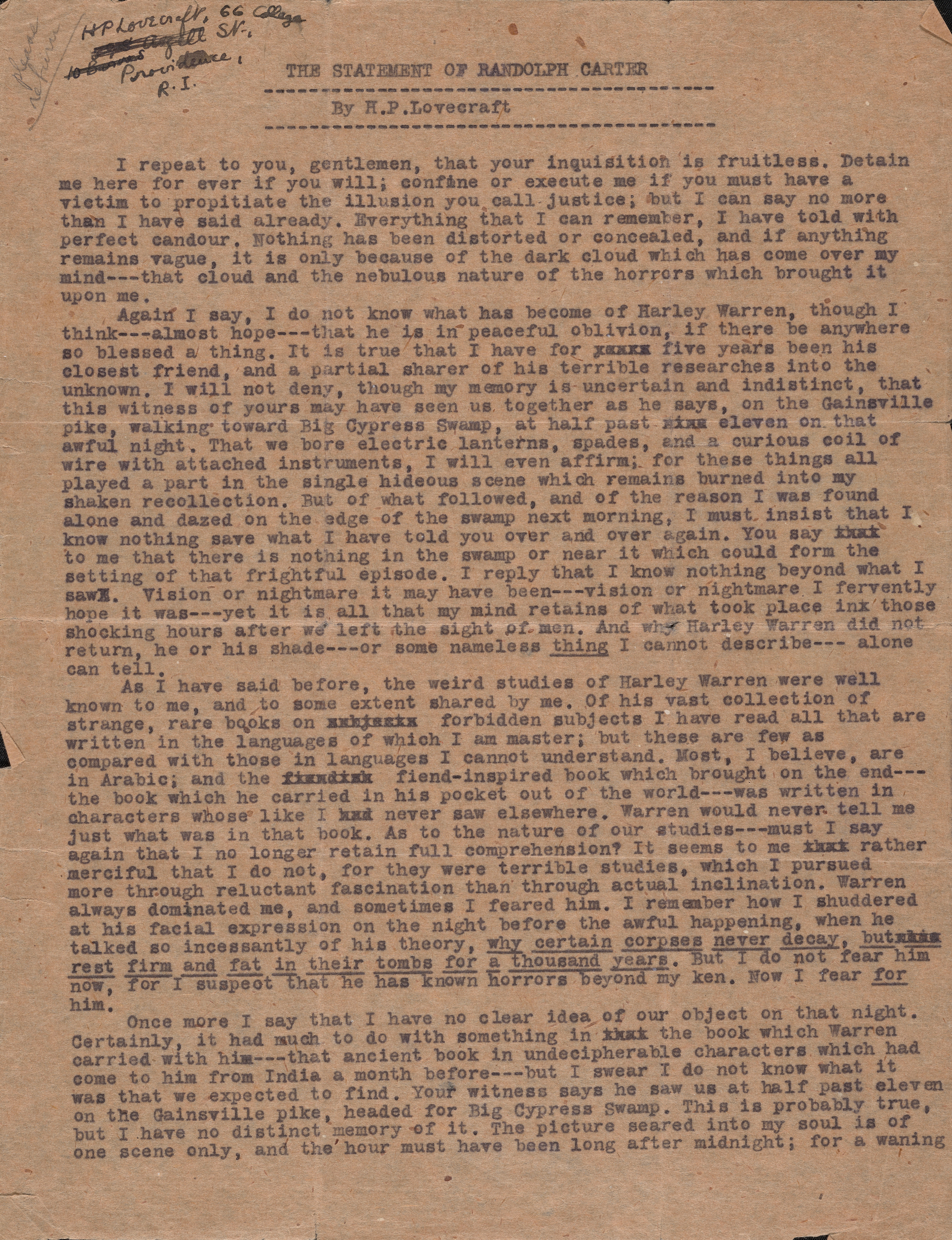 First page of the manuscript The Statement of Randolph Carter.